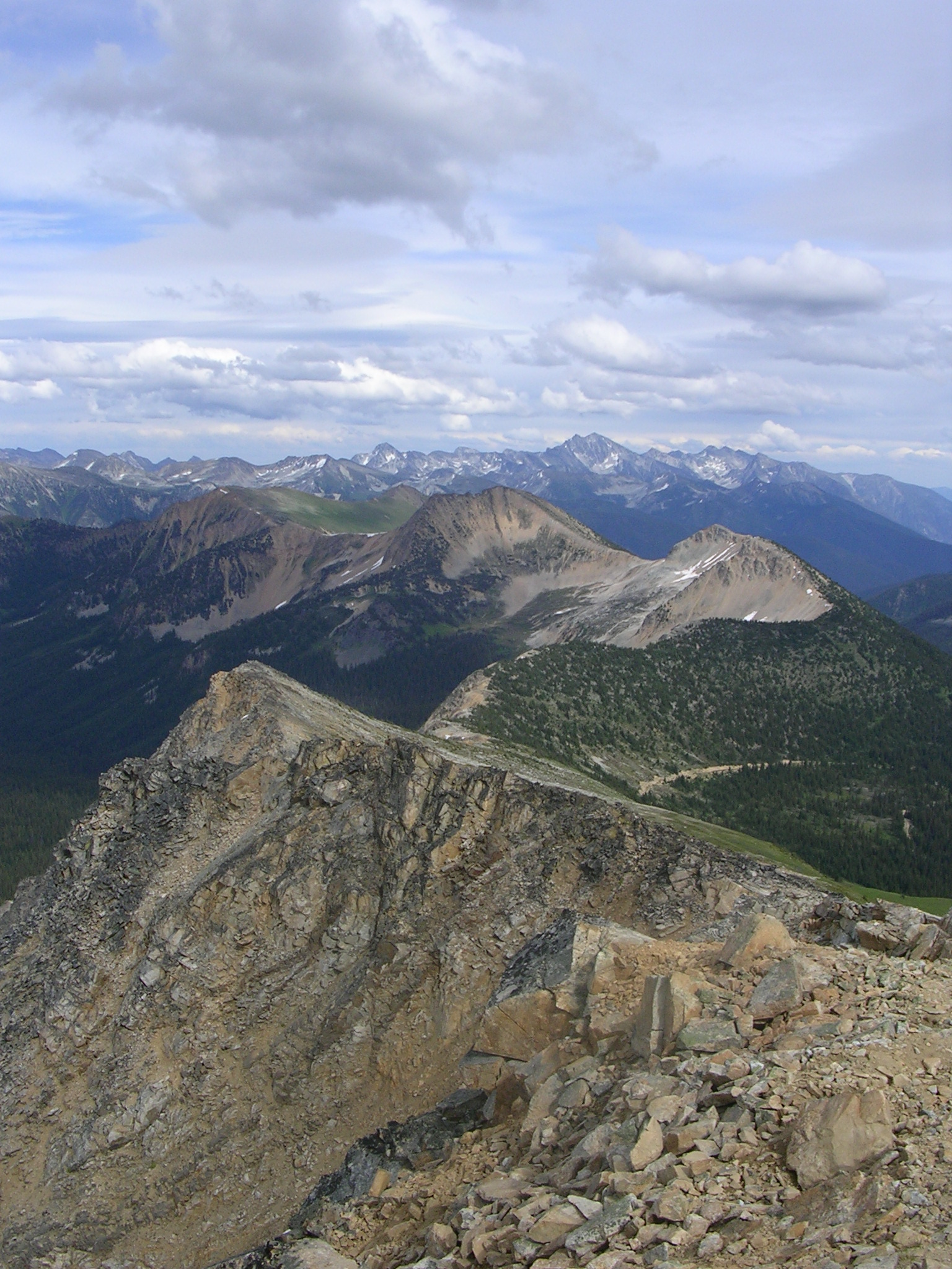 View from Gott Peak, Stein Valley Nlaka'pumux Heritage Park, British Columbia